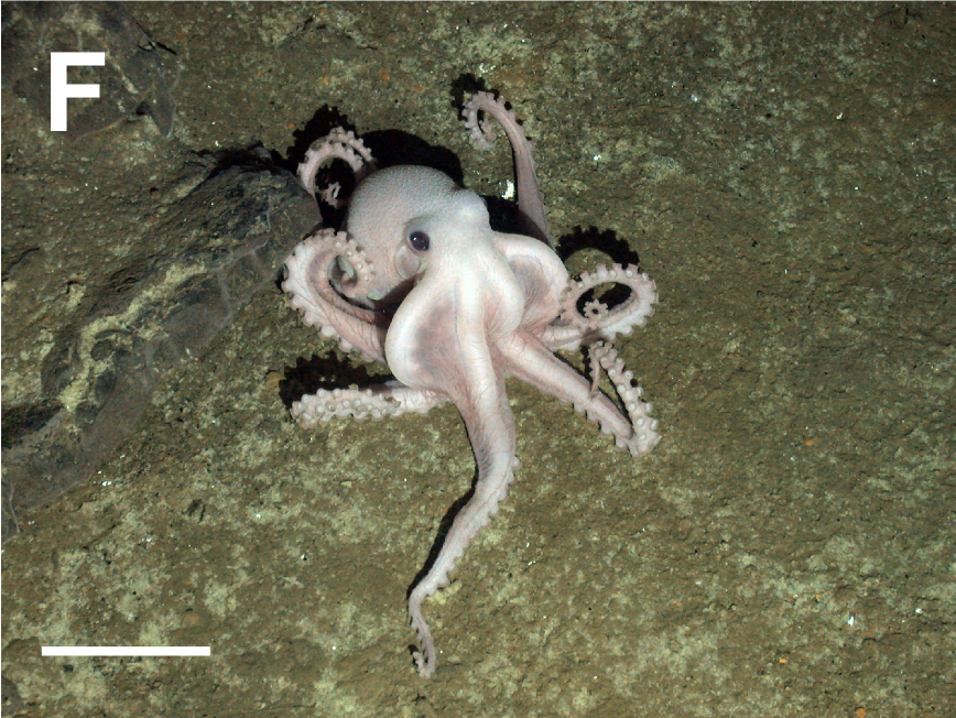 Original caption: "(F) Unidentified octopus at E9 (Dive 144, 2,394 m depth). Scale bars: 10 cm for foreground."